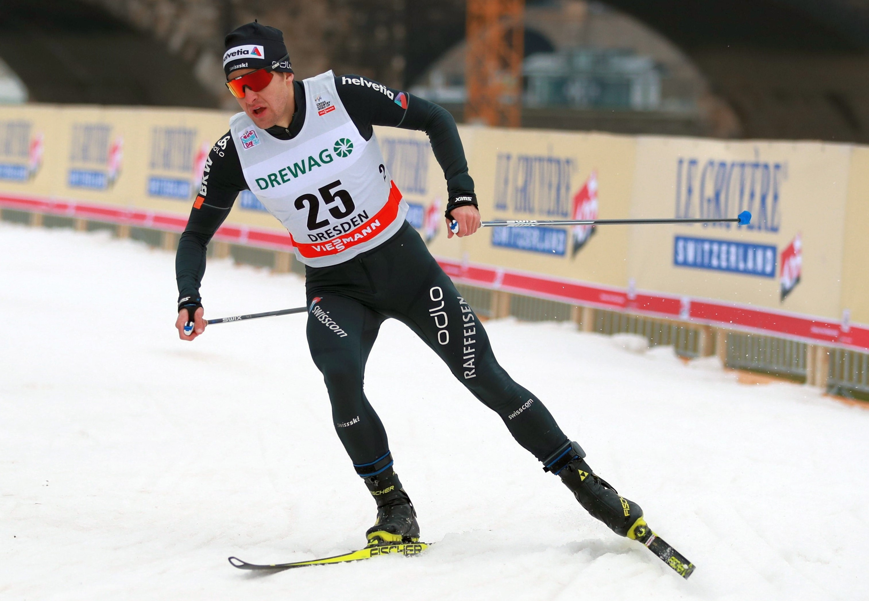 Mens Prolog at the FIS Cross-Country World Cup Dresden 2018: Roman Furger